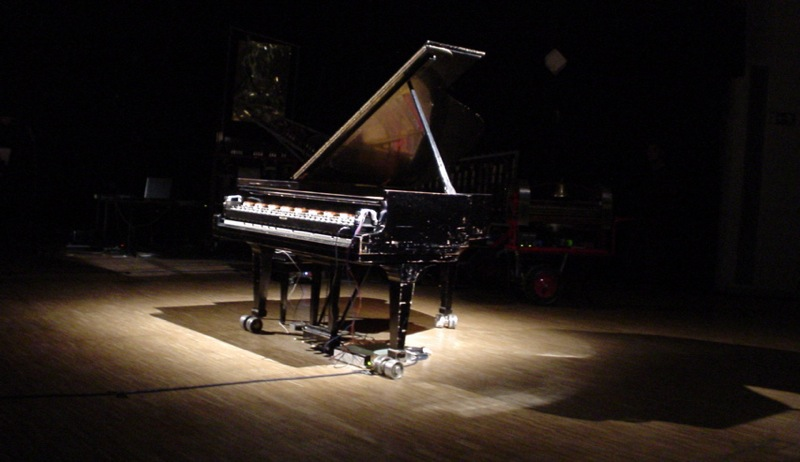 5 November 2006 A player piano played an algorithmic installation at the Computing Music Festival in Cologne, Germany